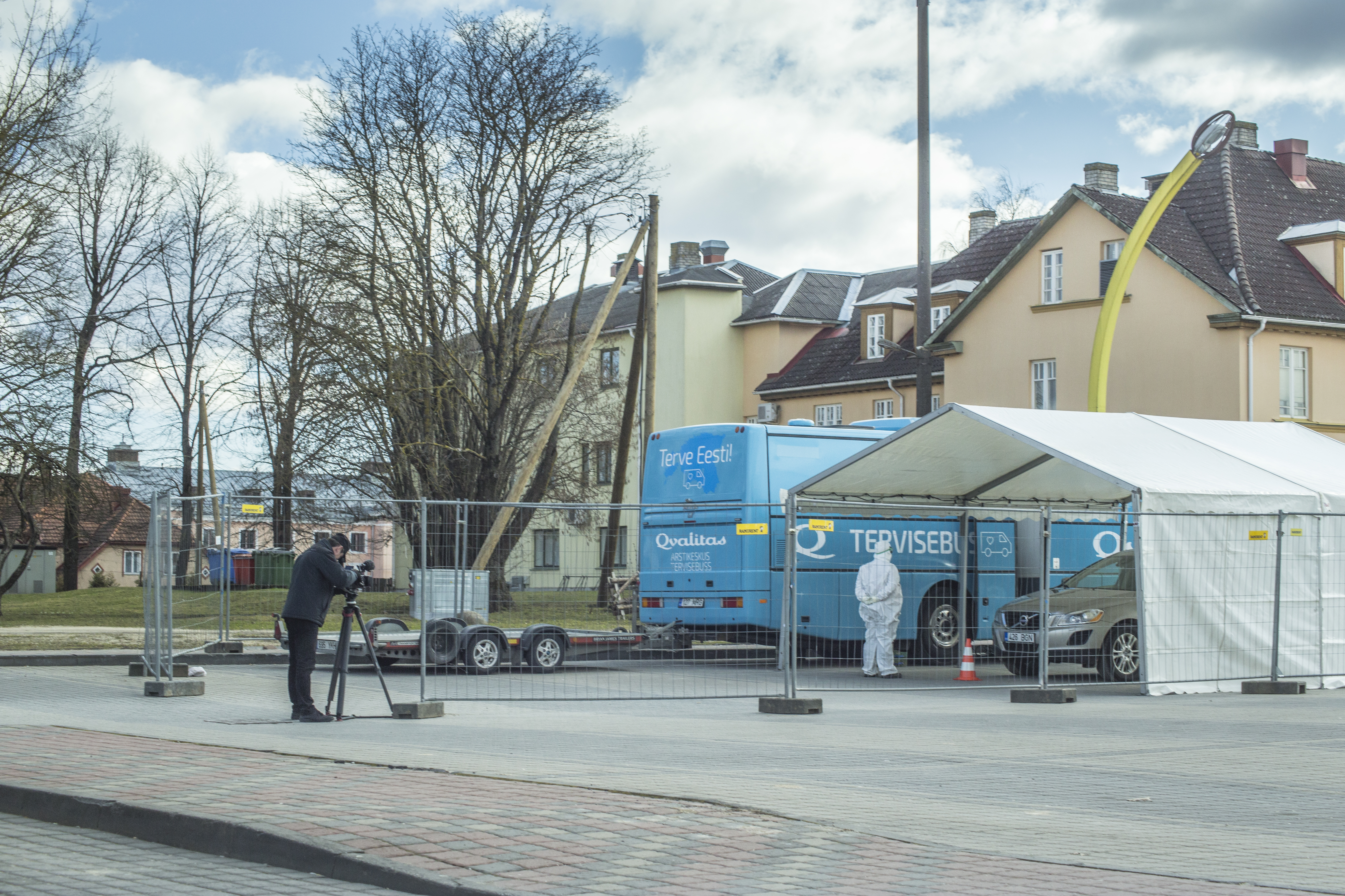 Drive-in testing for coronavirus in Viljandi.